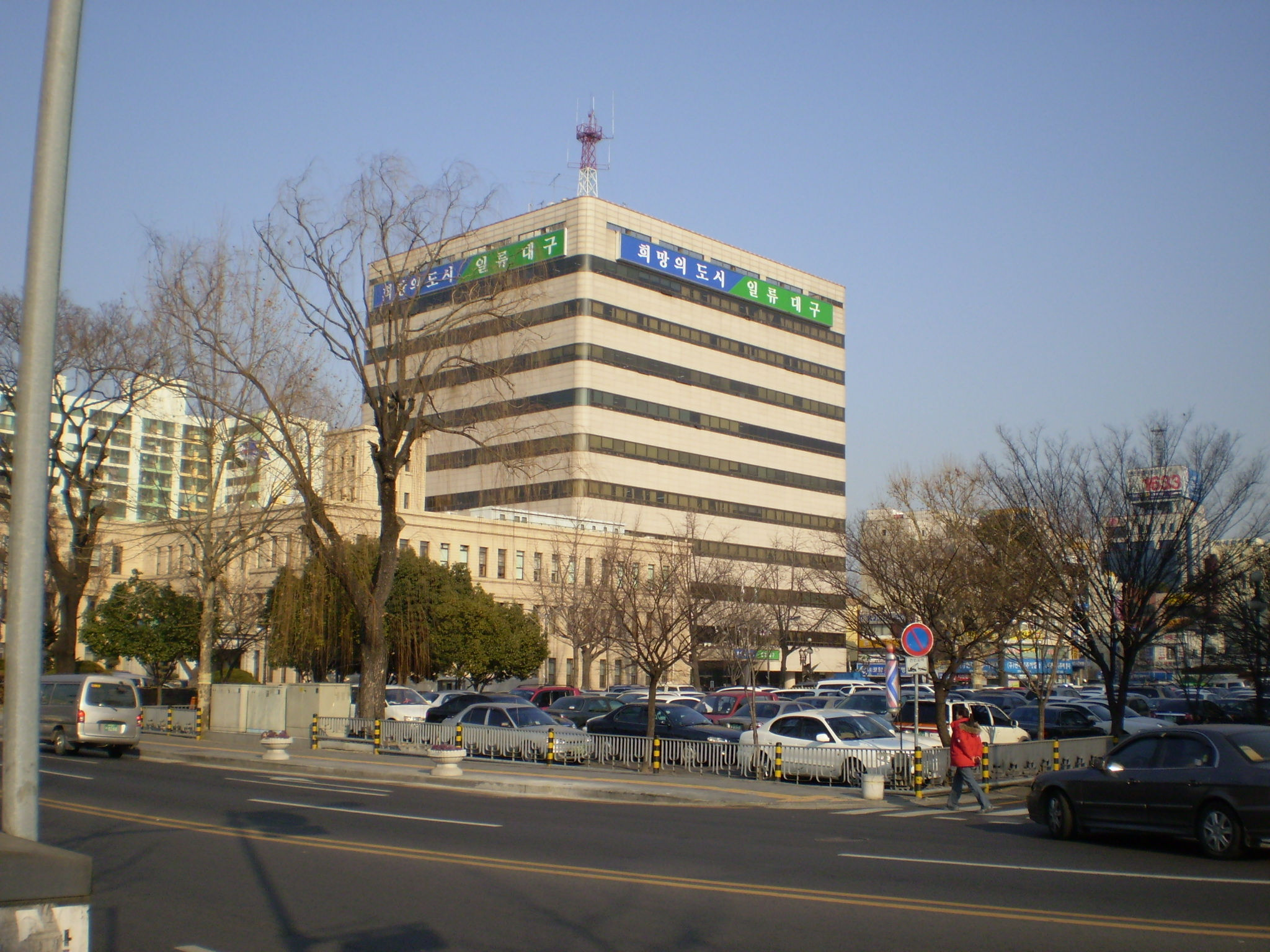 Daegu City Hall (대구광역시청) in Daegu, South Korea.